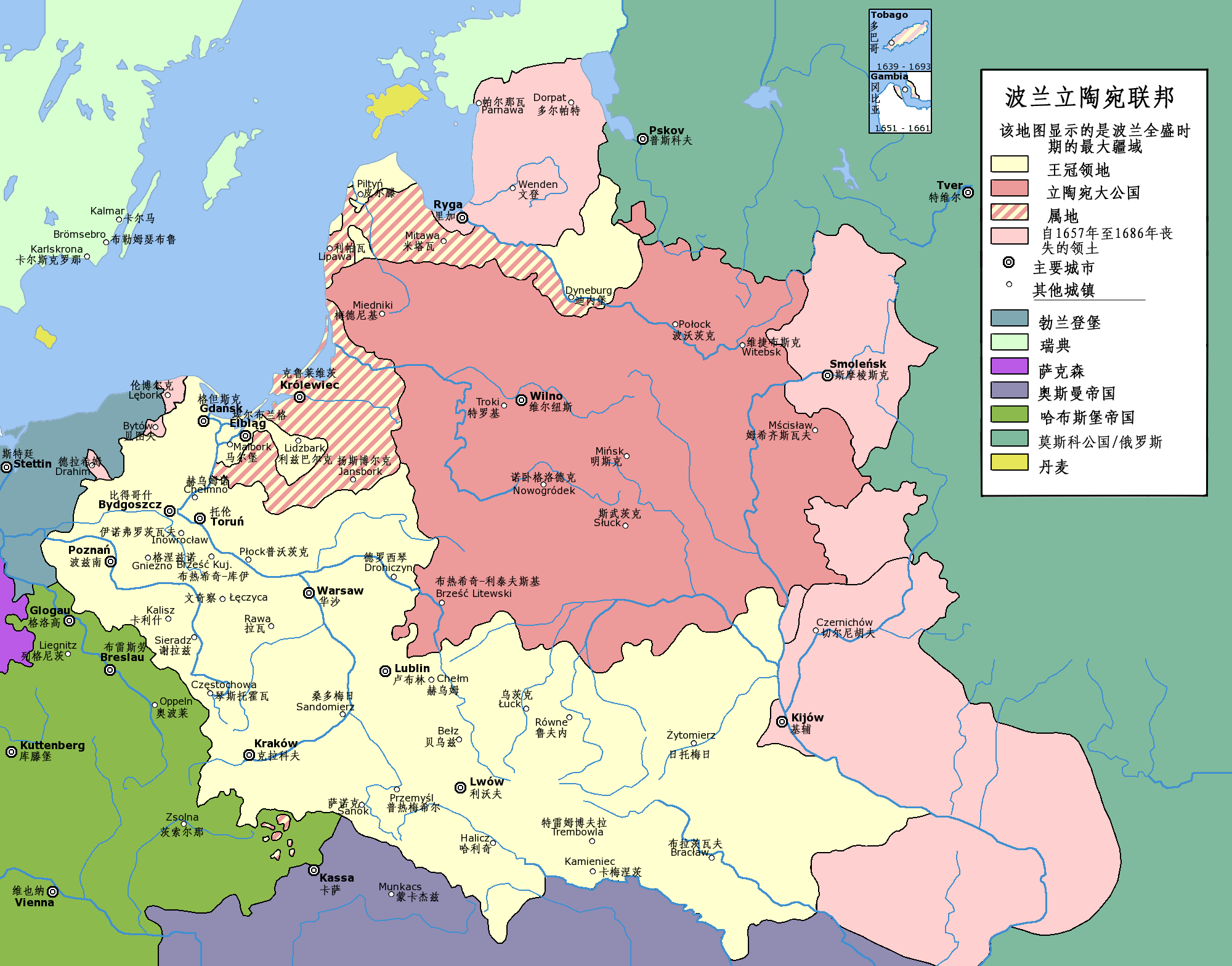 Translate English to Chinese